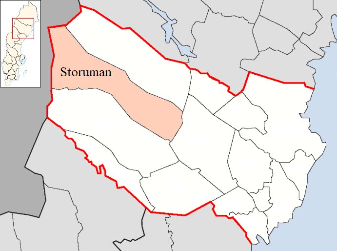 Storuman Municipality in Västerbotten County Designed by me. Mere outlines are a PD source from